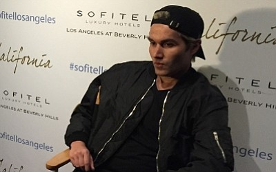 Picture of Mario Babic in Beverly Hills